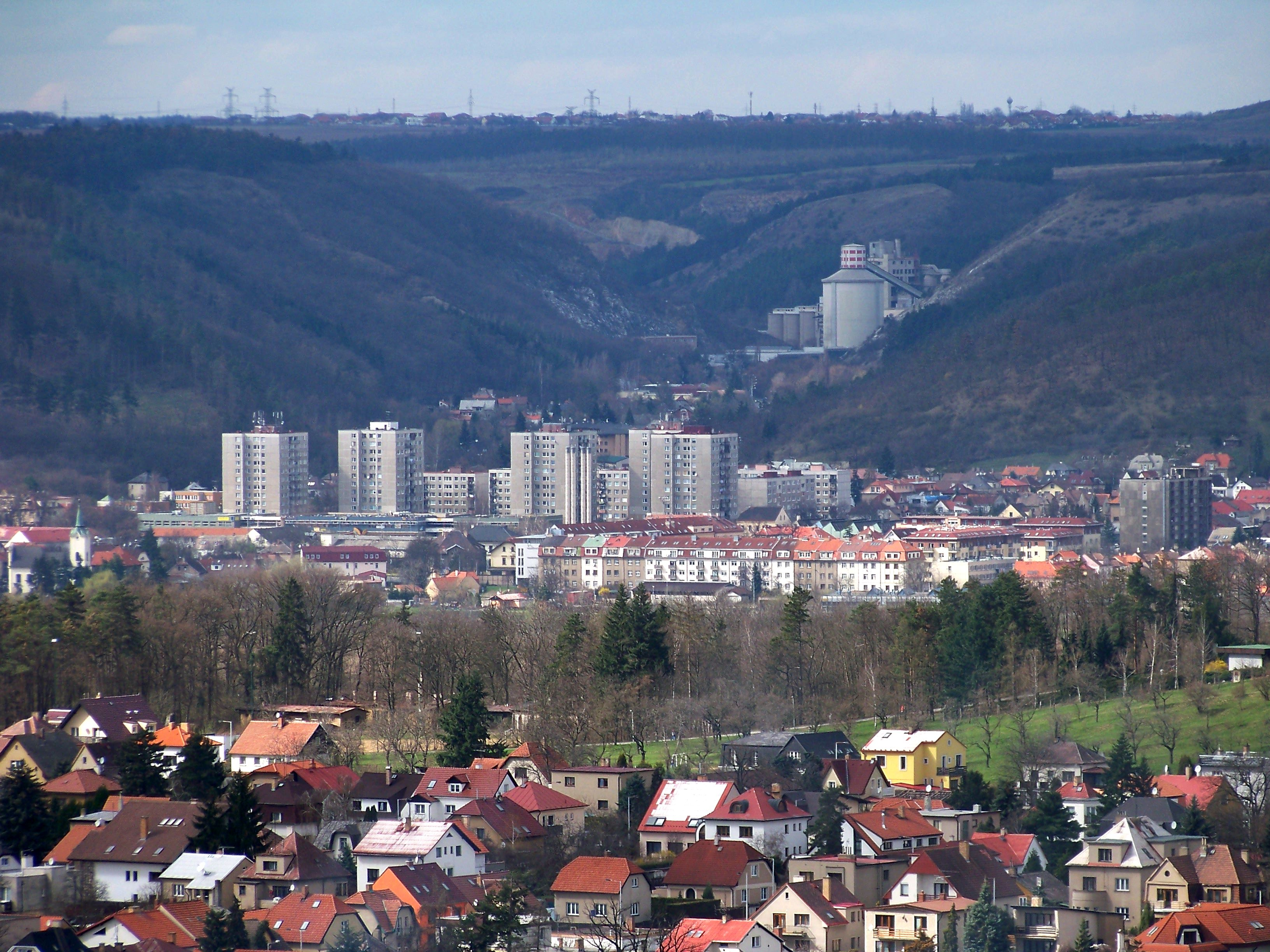 Zbraslav and Radotín, Prague, the Czech Republic.